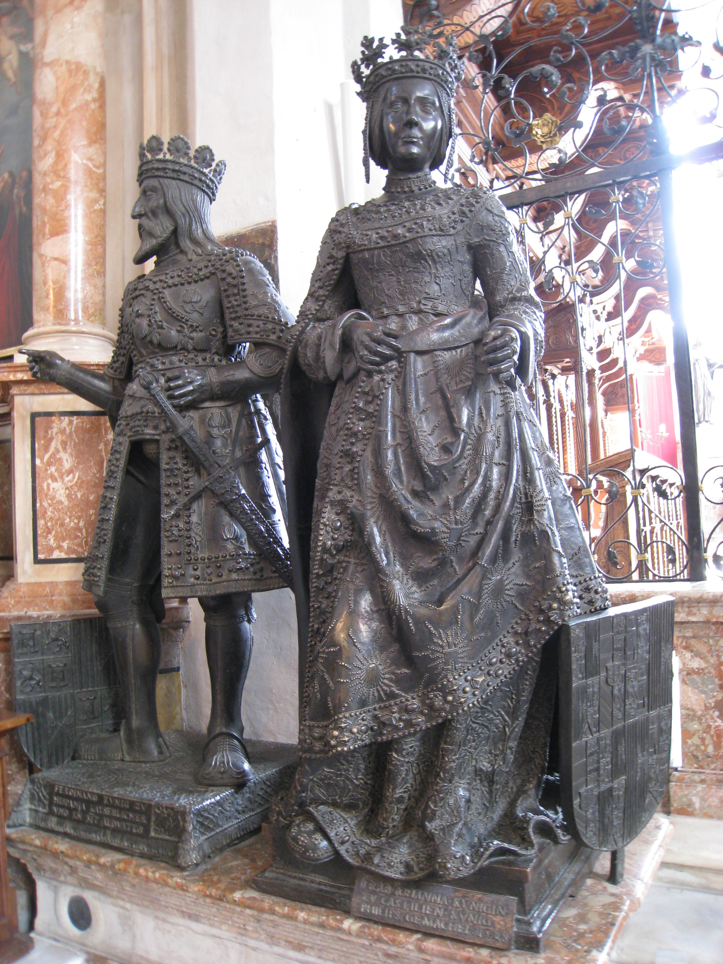 Statue within Hofkirche, Innsbruck, Austria. This statue is old enough so that it is not covered by any copyright.